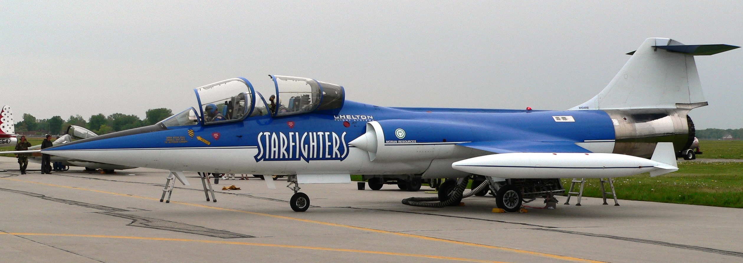 The Starfighters prepare N104RB for a demonstration at the Selfridge ANG, Michigan airshow in 2005.